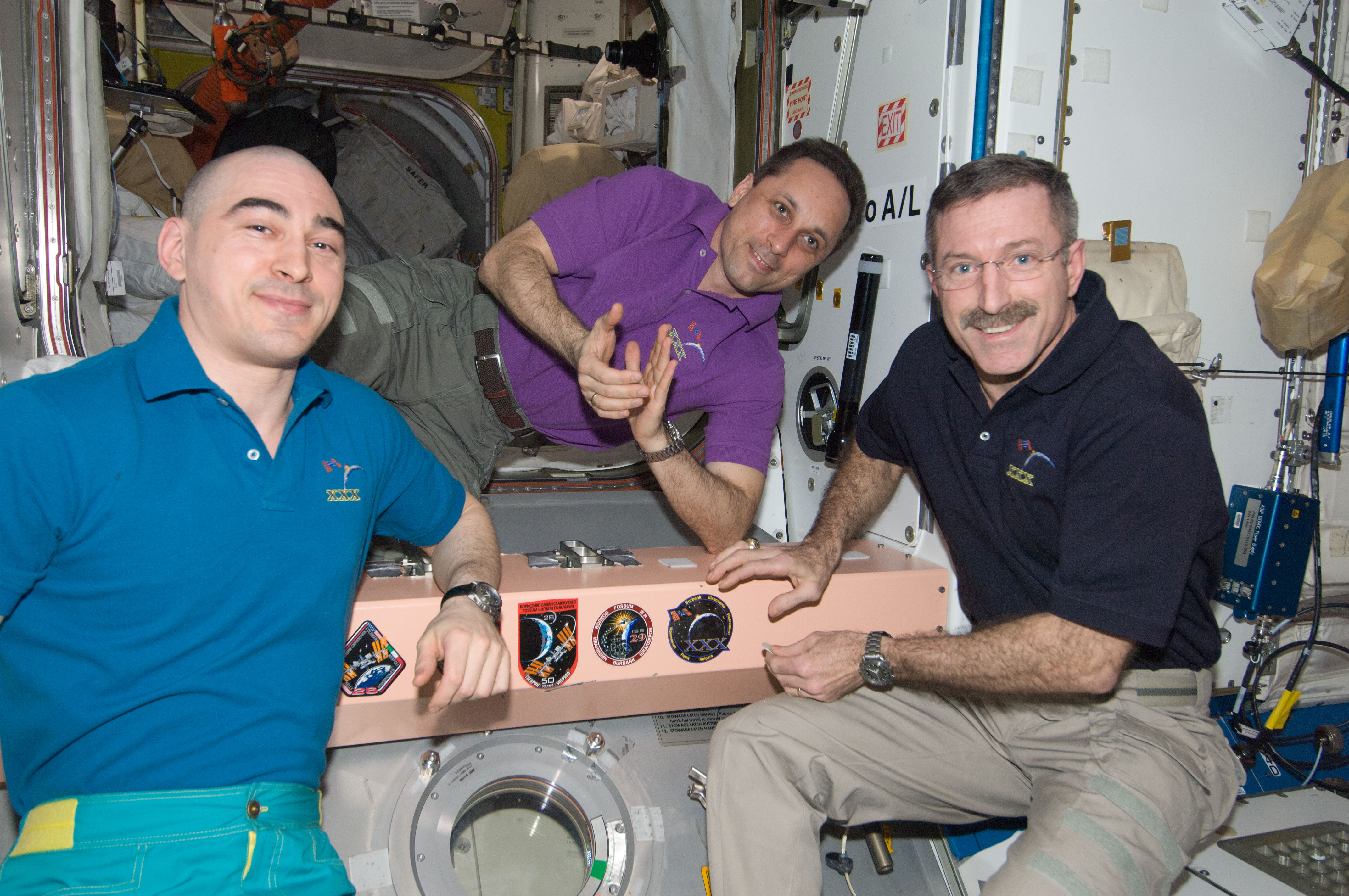 In the Unity node, NASA astronaut Dan Burbank (right), Expedition 30 commander; along with Russian cosmonauts Anton Shkaplerov (center) and Anatoly Ivanishin, both flight engineers, pose for a photo after adding the Expedition 30 patch to the growing collection of insignias representing crews who have worked on the International Space Station.